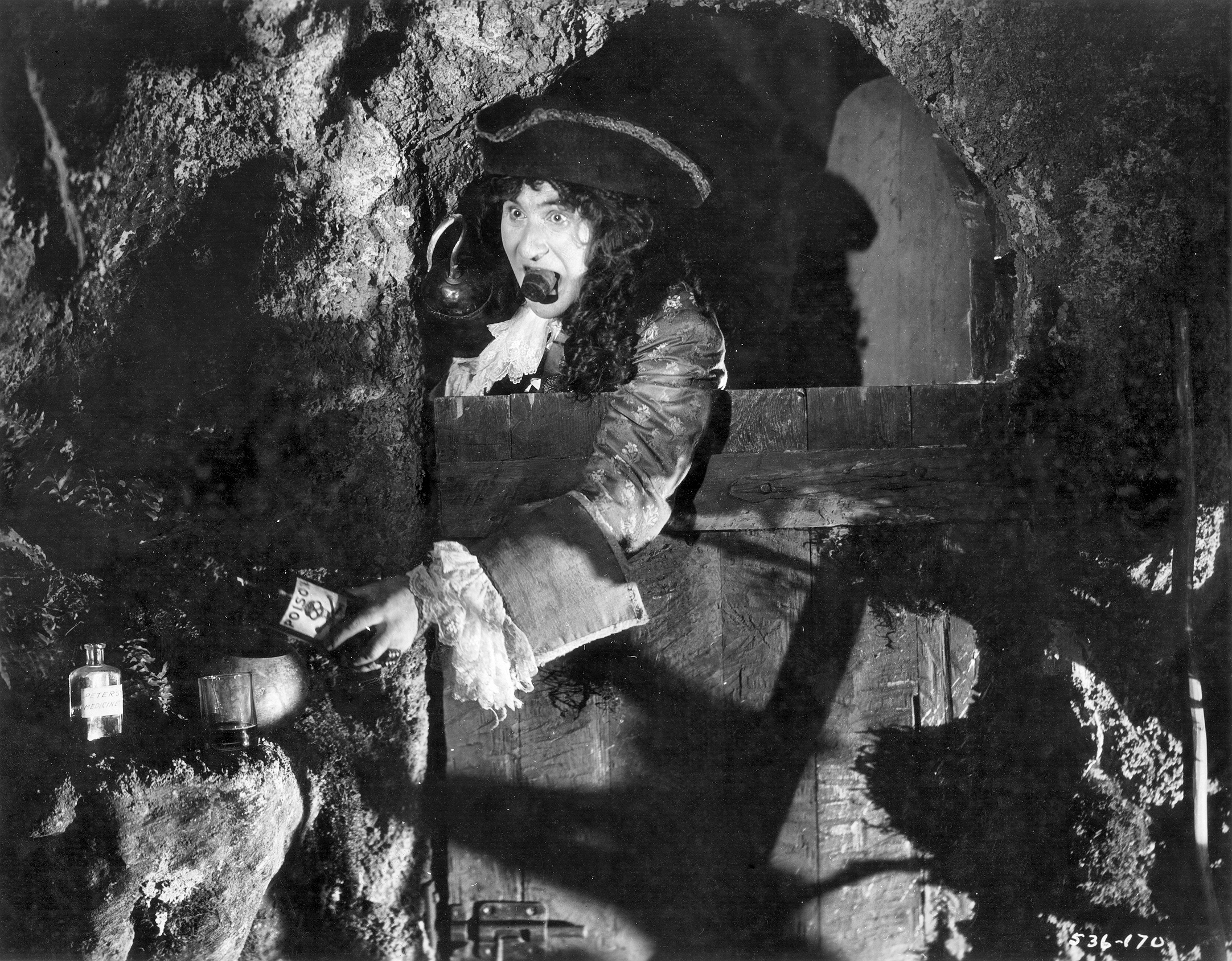 Ernest Torrence as Captain Hook in the film Peter Pan (1924). Parts of this film were shot along Orange County's coast. There are no known copyright restrictions on this image. All future uses of this photo should include the courtesy line, "Photo courtesy Orange County Archives." Comments are welcome after reading our Comment Policy. Photo collected during research for the Orange County Archives' 2011 exhibit, "On Location: Silent Film In Orange County."